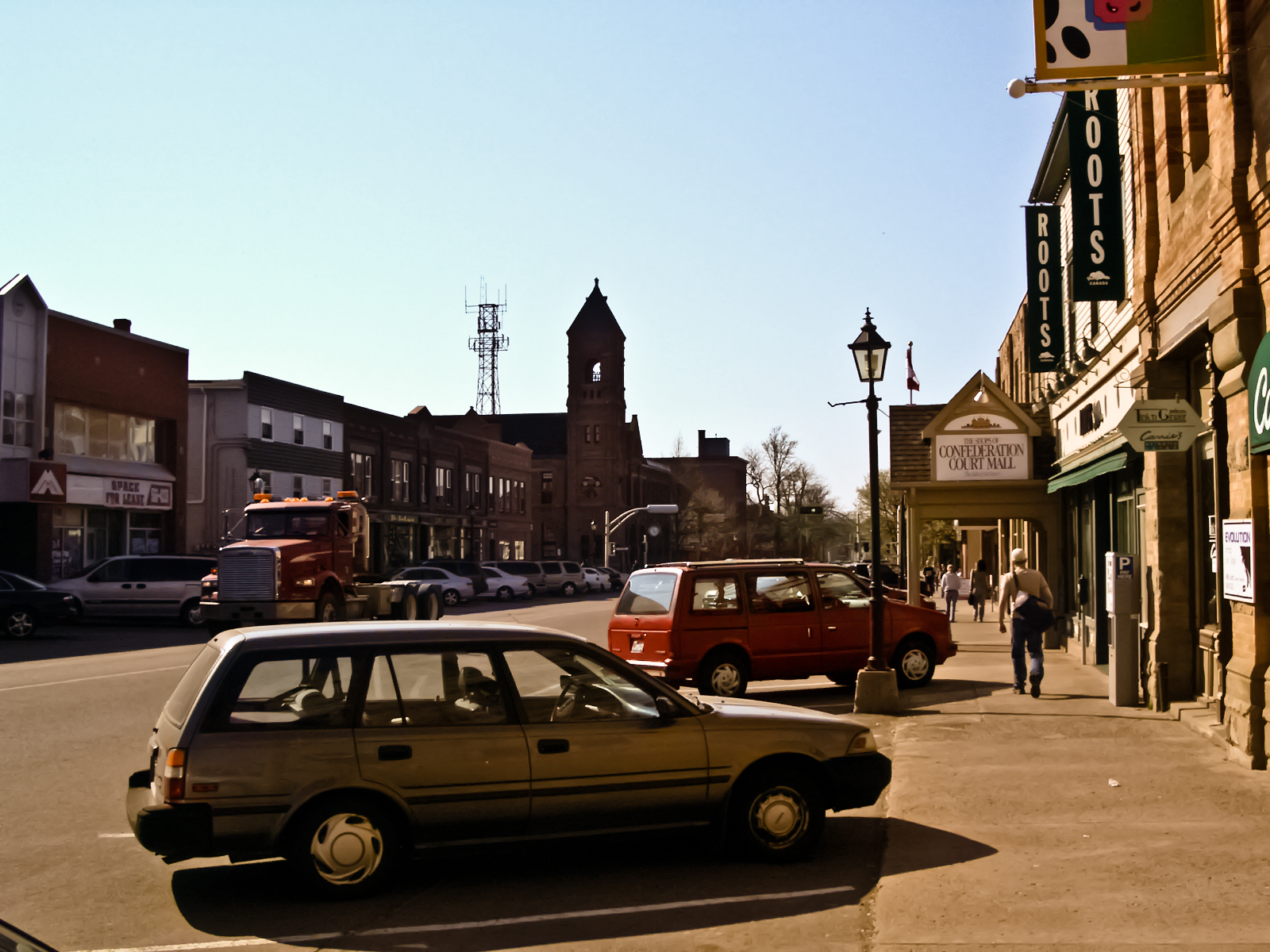 Charlottetown, P.E.I. Queen Street in the central business district.